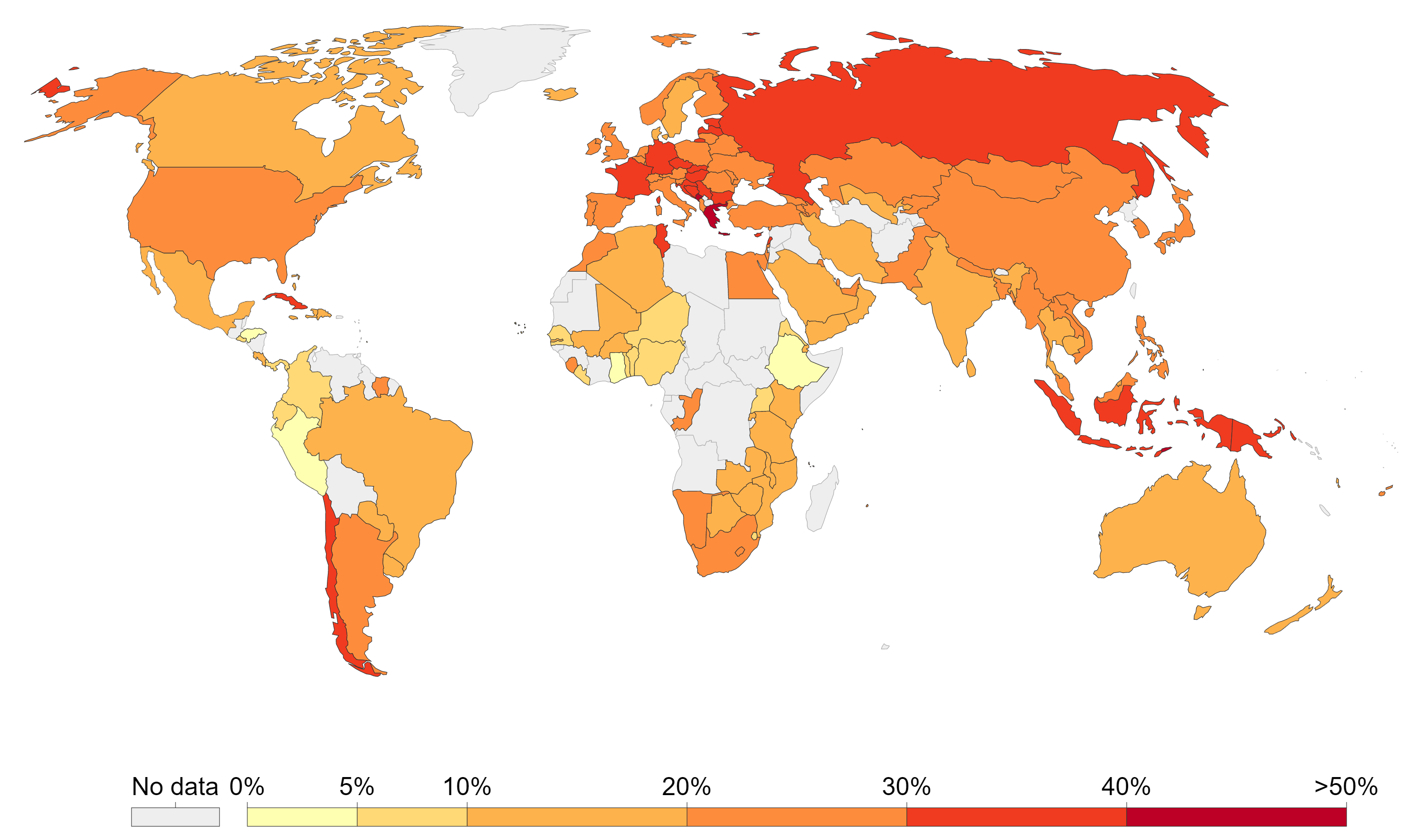 The share of men and women aged 15 and older who smoke any tobacco product on a daily or non-daily basis. It excludes smokeless tobacco use.